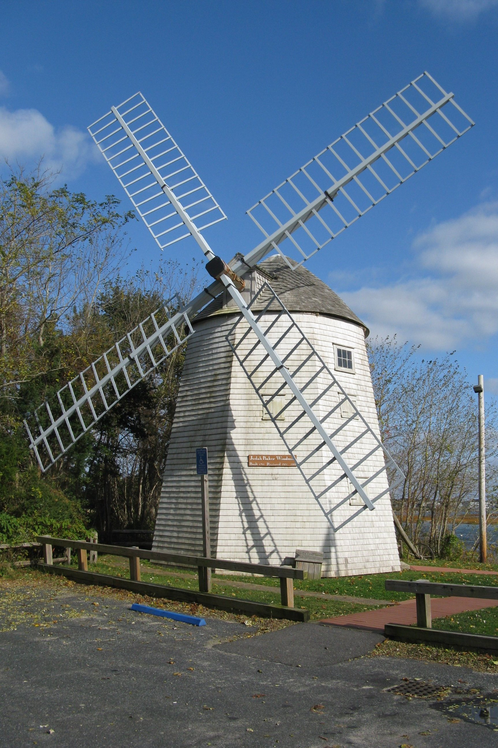 Judah Baker Windmill, South Yarmouth Massachusetts